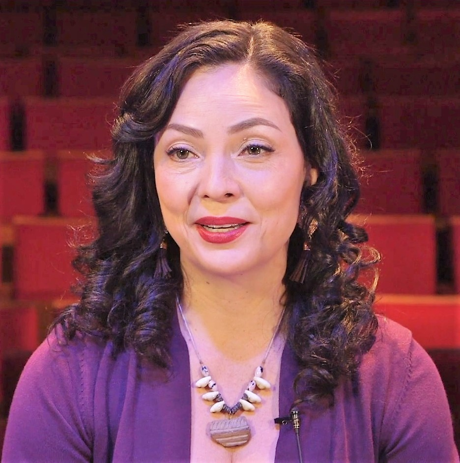 Multidisciplinary artist Santee Smith (Tekaronhiáhkhwa) is one of five winners of the 2019 Johanna Metcalf Performing Arts Prize presented by the Metcalf Foundation.